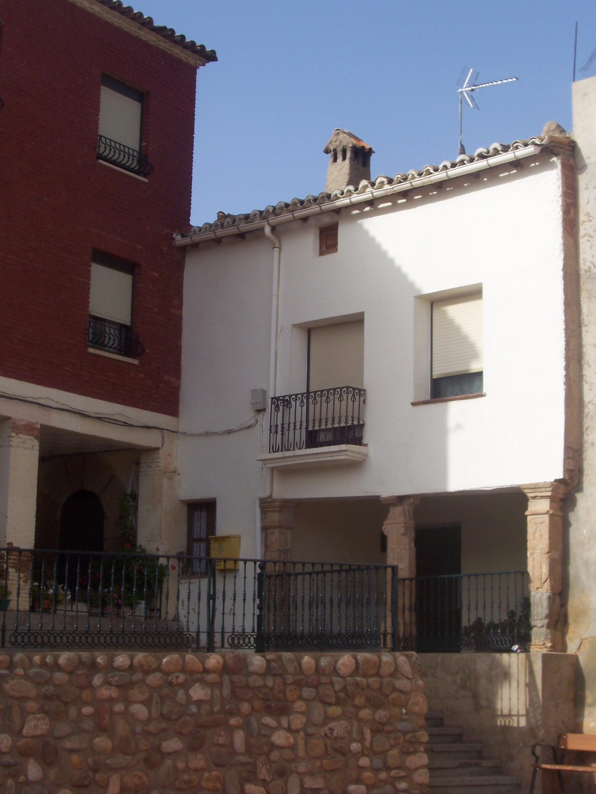 Plaza Mayor de Serón de Nágima, edificio del siglo XVI